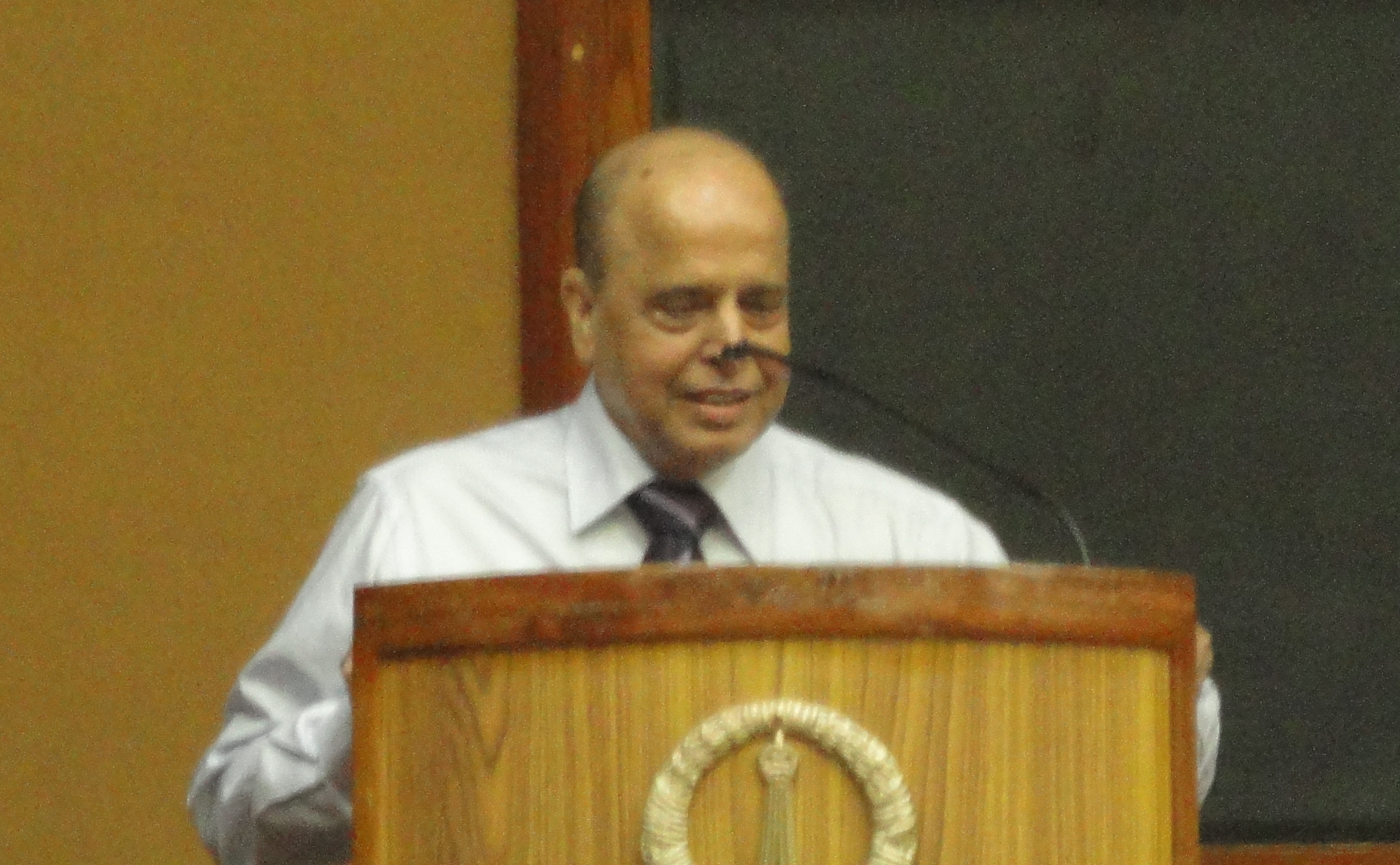 Prof. Kasturirangan in Indian Institute of Science, Bangalore